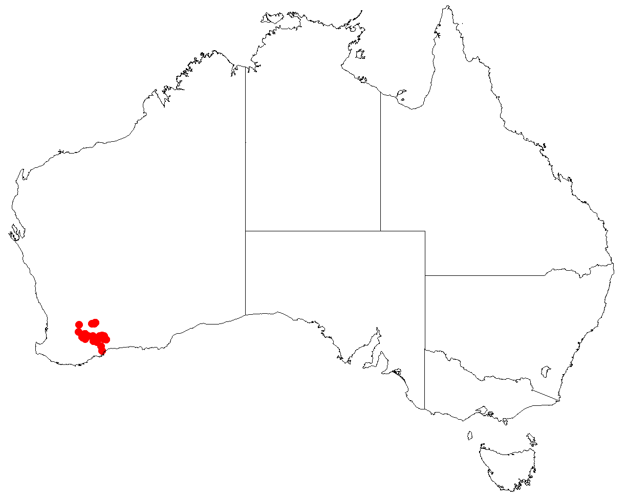 Allocasuarina pinaster occurrence data from Australasian Virtual Herbarium downloaded 4 July 2018